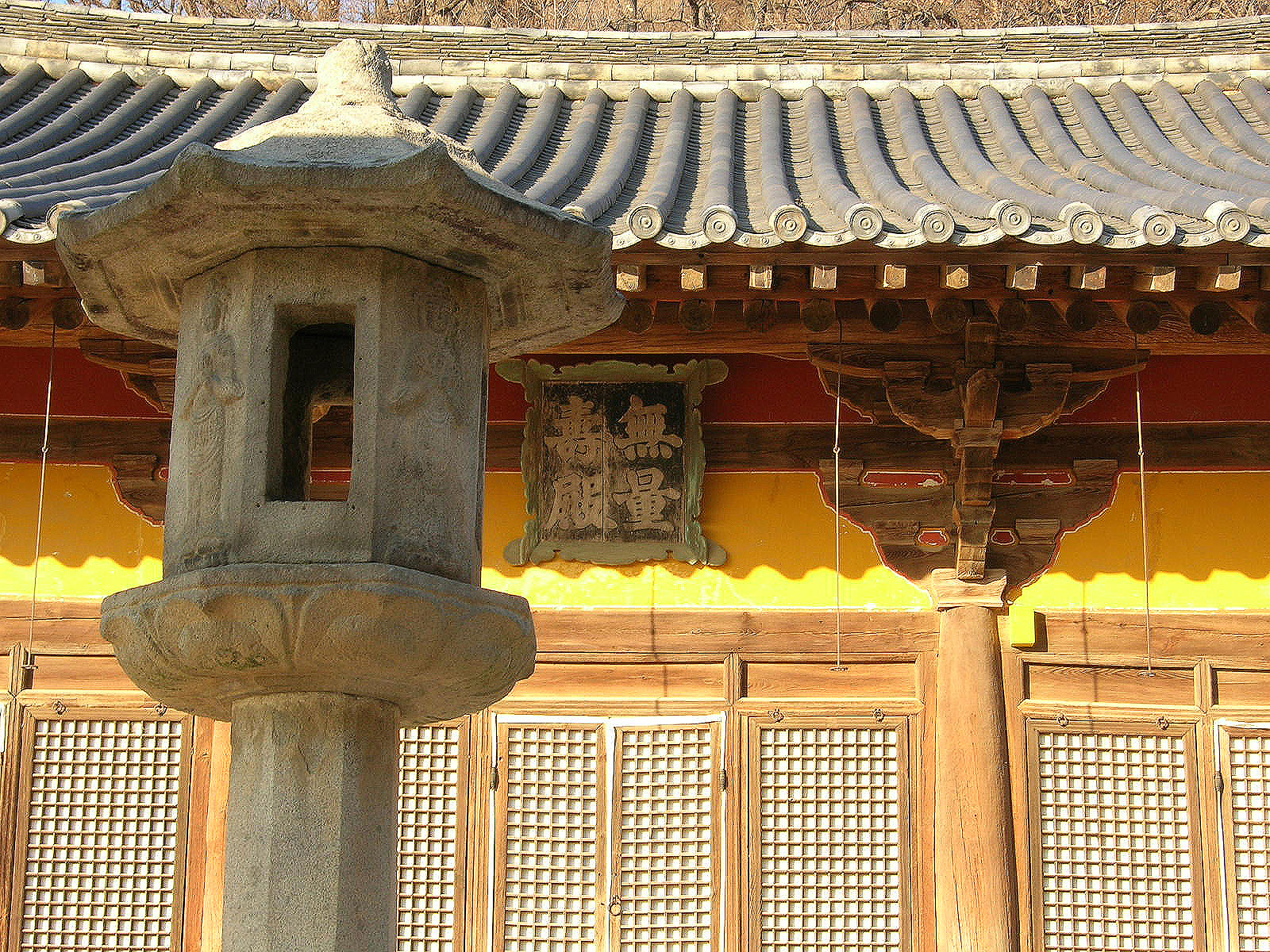 Muryangsujeon,Temple Buseok,Yeongju,North Gyeongsang Province,KOREA